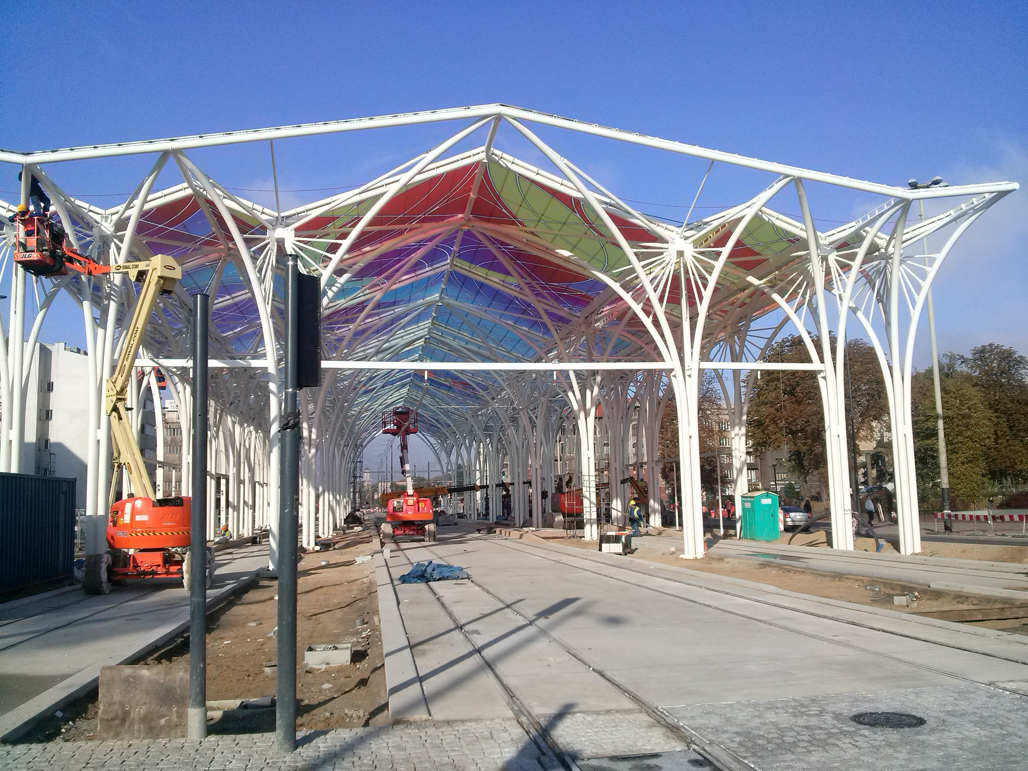 Membrane roof on tram station in Łódź, September 2015